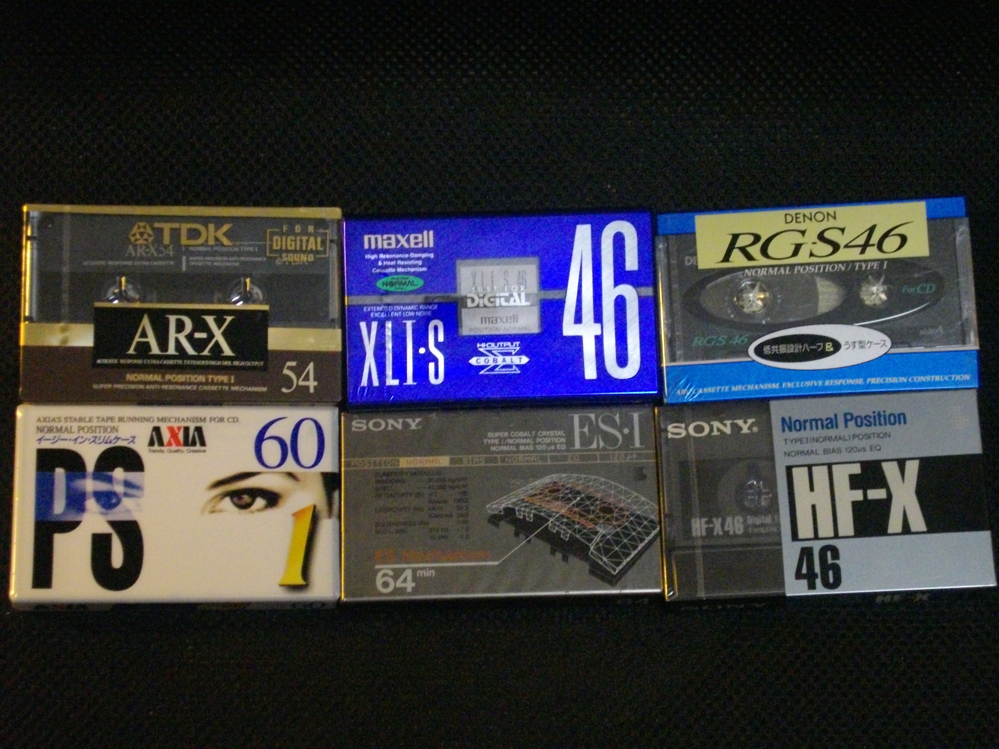 Top-of-the line Type I cassettes (superferrics) from TDK, Maxell, Denon, Sony and middle-of-the-line Fuji PS cassette. The cobalt-doped superferrics were rare treats, priced well above mass-produced Type II cassettes, and in the XXI century became very very expensive collectibles.